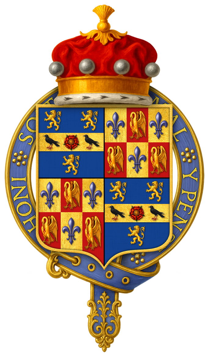 Coat of arms of Sir Thomas Cromwell, 1st Baron Cromwell, KG BURKE, Sir Bernard, The General Armory of England, Scotland, Ireland, and Wales: Comprising a Registry of Armorial Bearings from the Earliest to the Present Time, London: Harrison & sons, 1884. “ Cromwell (Earl of Essex. Thomas Cromwell, son of Walter Cromwell, a Blacksmith of Putney, was so created 1536, attainted 1539). Az. on a fesse betw. three lions ramp. or, a rose gu. betw. two Cornish choughs ppr. ”